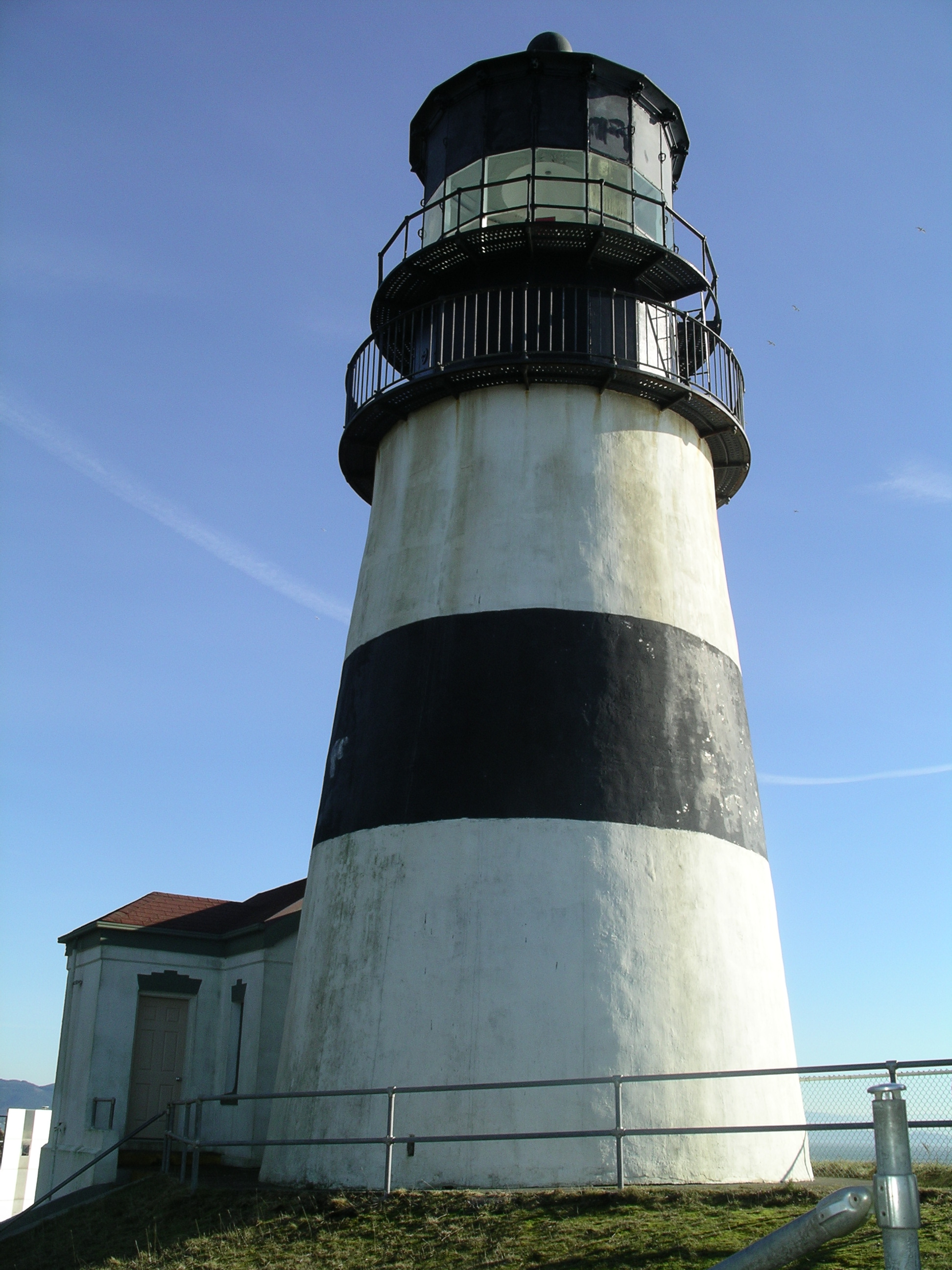 Cape Disappointment Light, Washington, USA